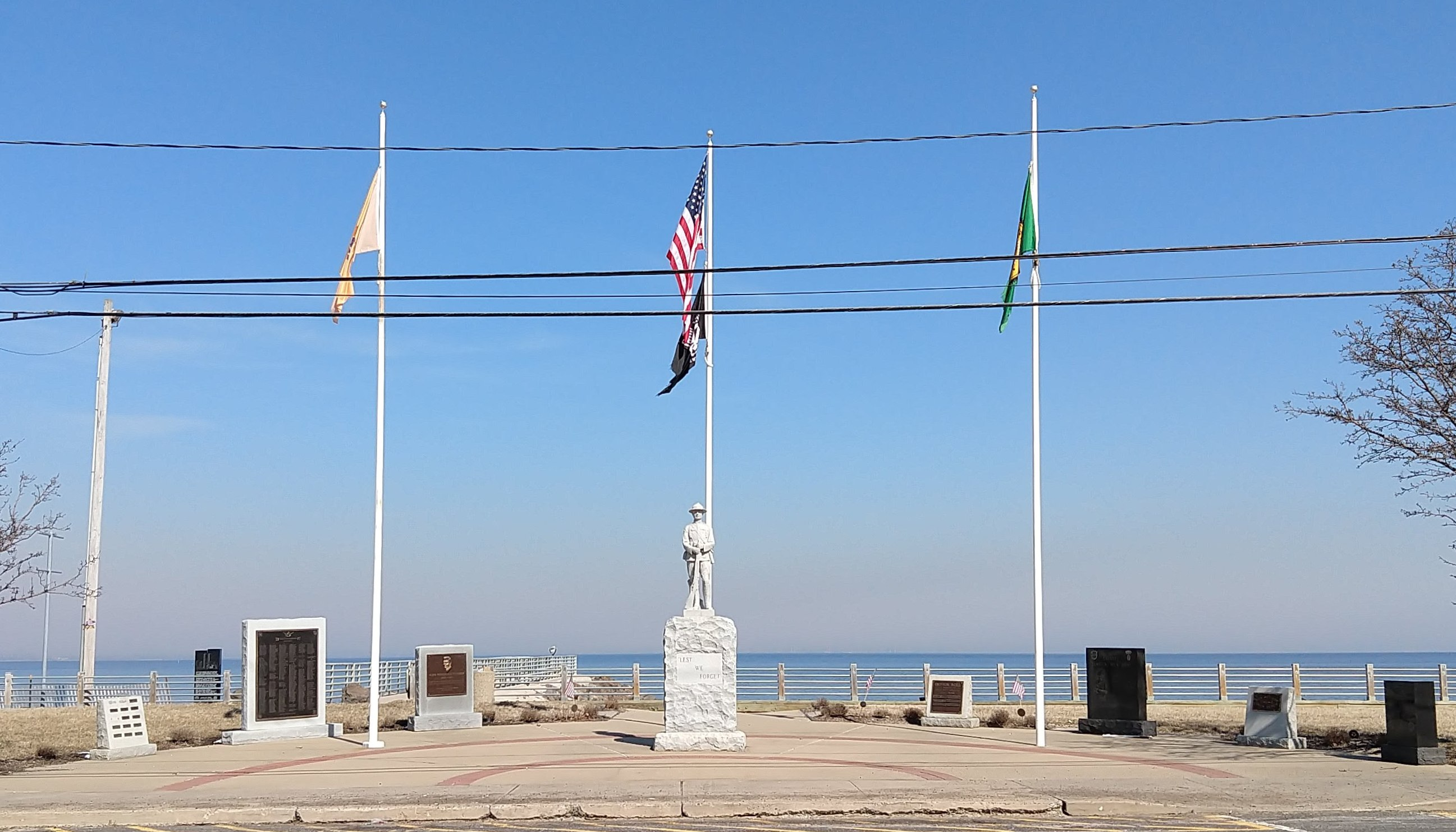 Memorial in Union Beach, New Jersey dedicated those killed in World War I, World War II, and Vietnam War, and a plaque dedicated to John F. Kennedy. It is located at the intersection of Florence Avenue and Front Street. See Union Beach Memorial Park for a more detailed description of memorials.